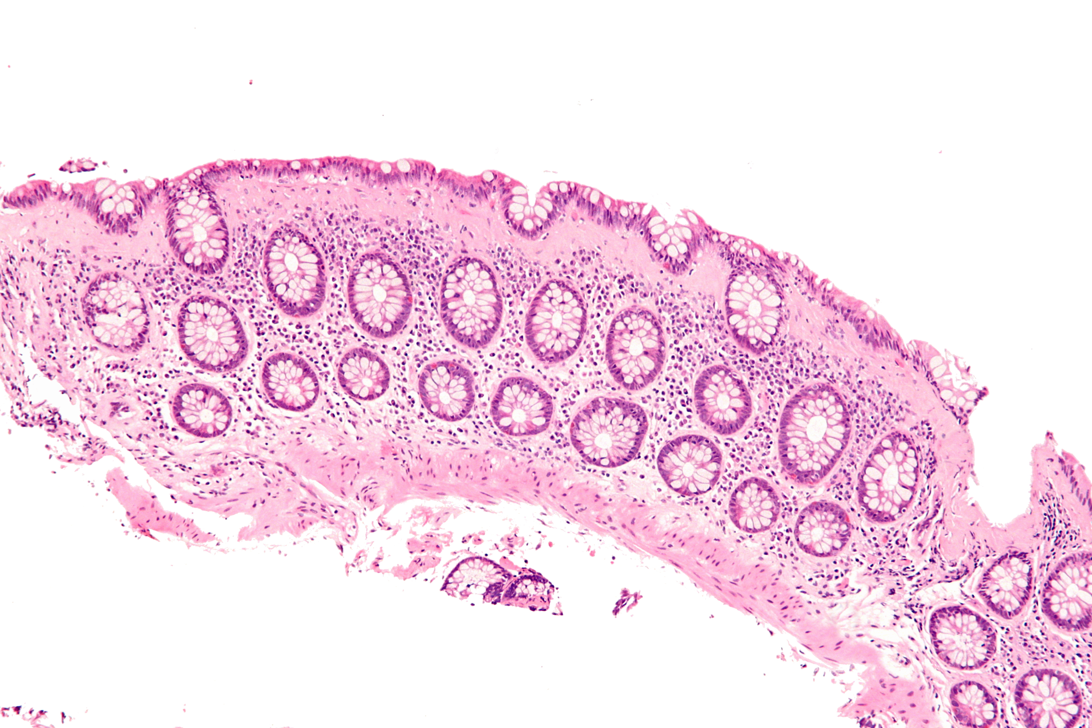 Intermediate magnification micrograph of collagenous colitis. H&E stain. Related images High mag.